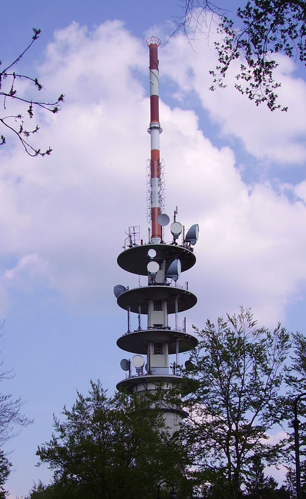 on top of Königstuhl (mountain) in Heidelberg, Germany